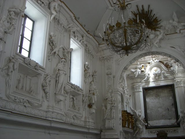 Interior of the Oratory of San Lorenzo in Palermo. Stucco decoration is the masterpiece of Giacomo Serpotta, who worked on it between 1698 and 1710. The precious altapiece Nativity with St. Francis and St. Lawrence (1609) by Caravaggio was stolen from the Oratory in the night of October 19, 1969.